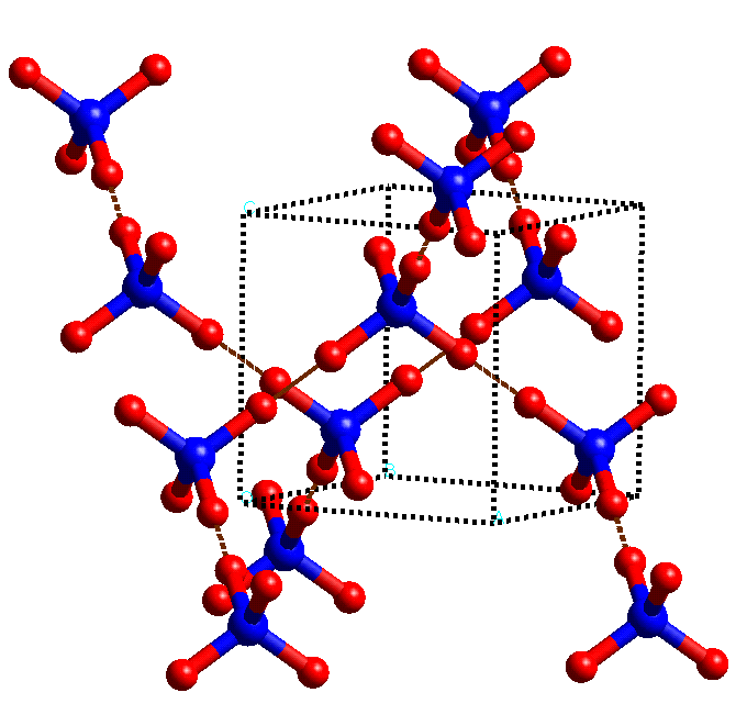 The crystal structure of ice VII